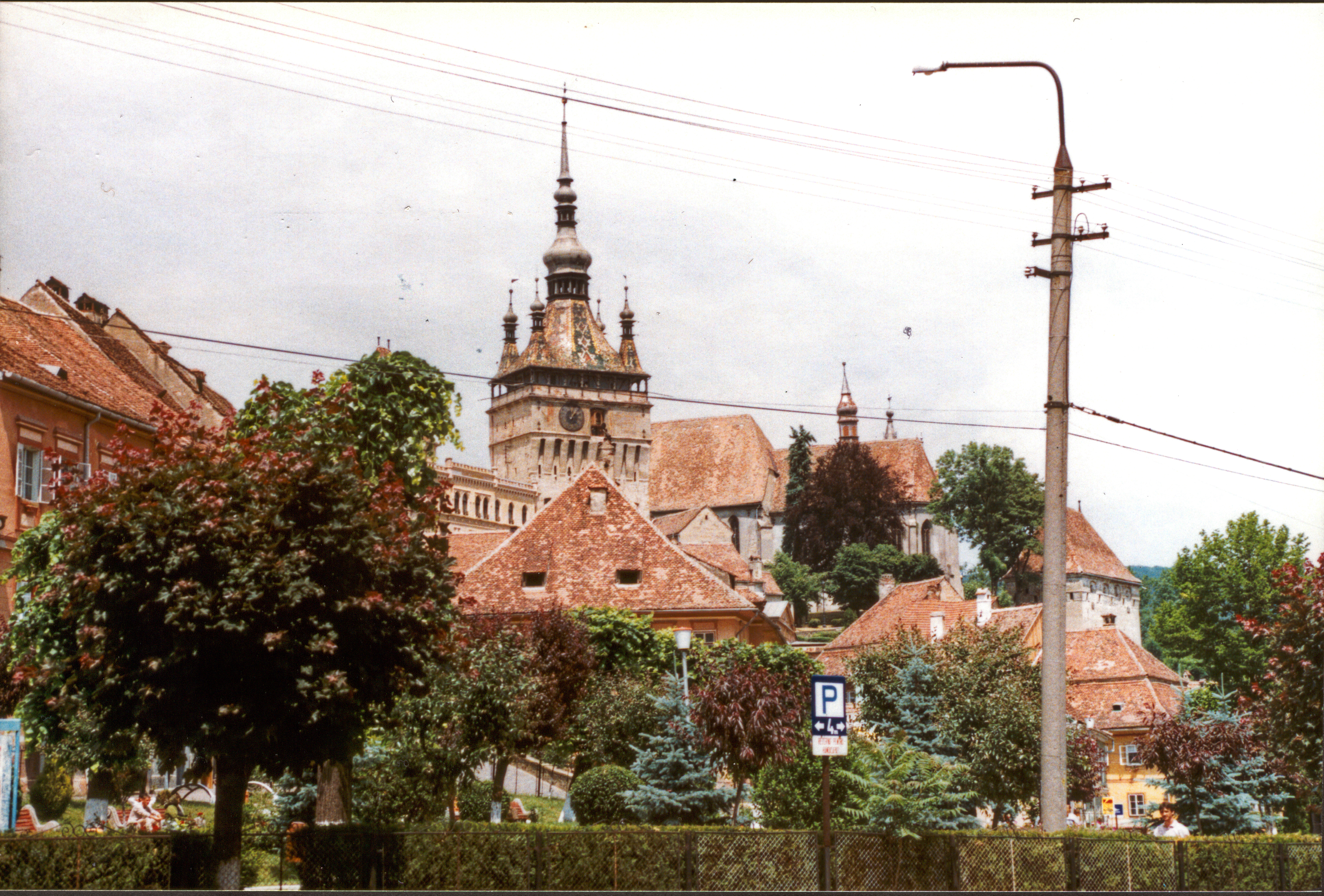 Romania - Sighişoara - Town of Dracula